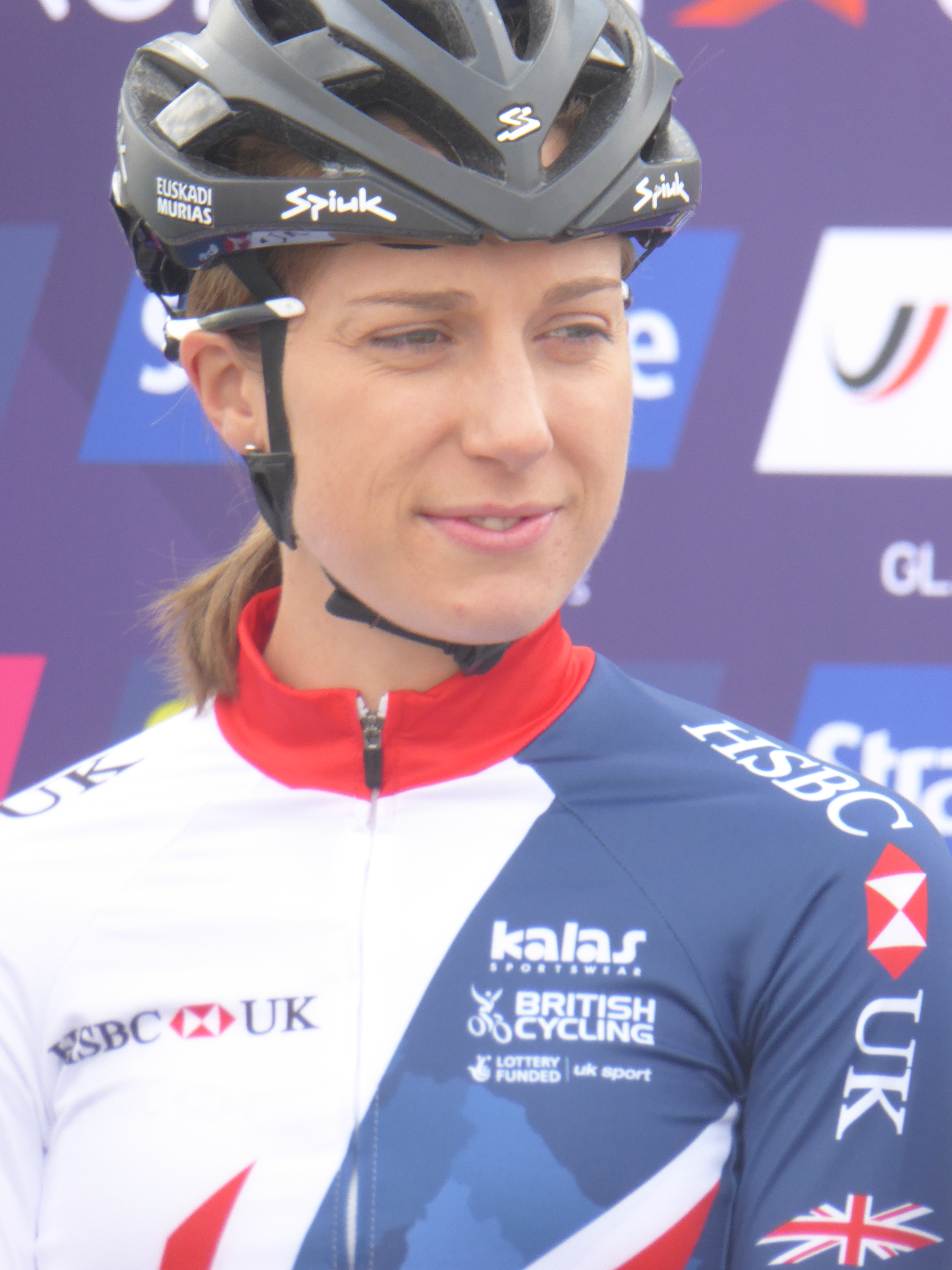 Dani Christmas (Great Britain), prior to the women's road race at the 2018 UEC European Road Cycling Championships in Glasgow.